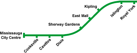 Made this image a few days ago. Yeah, free to use anywhere. Map based on images from the TTC Rapid Transit Expansion Study.